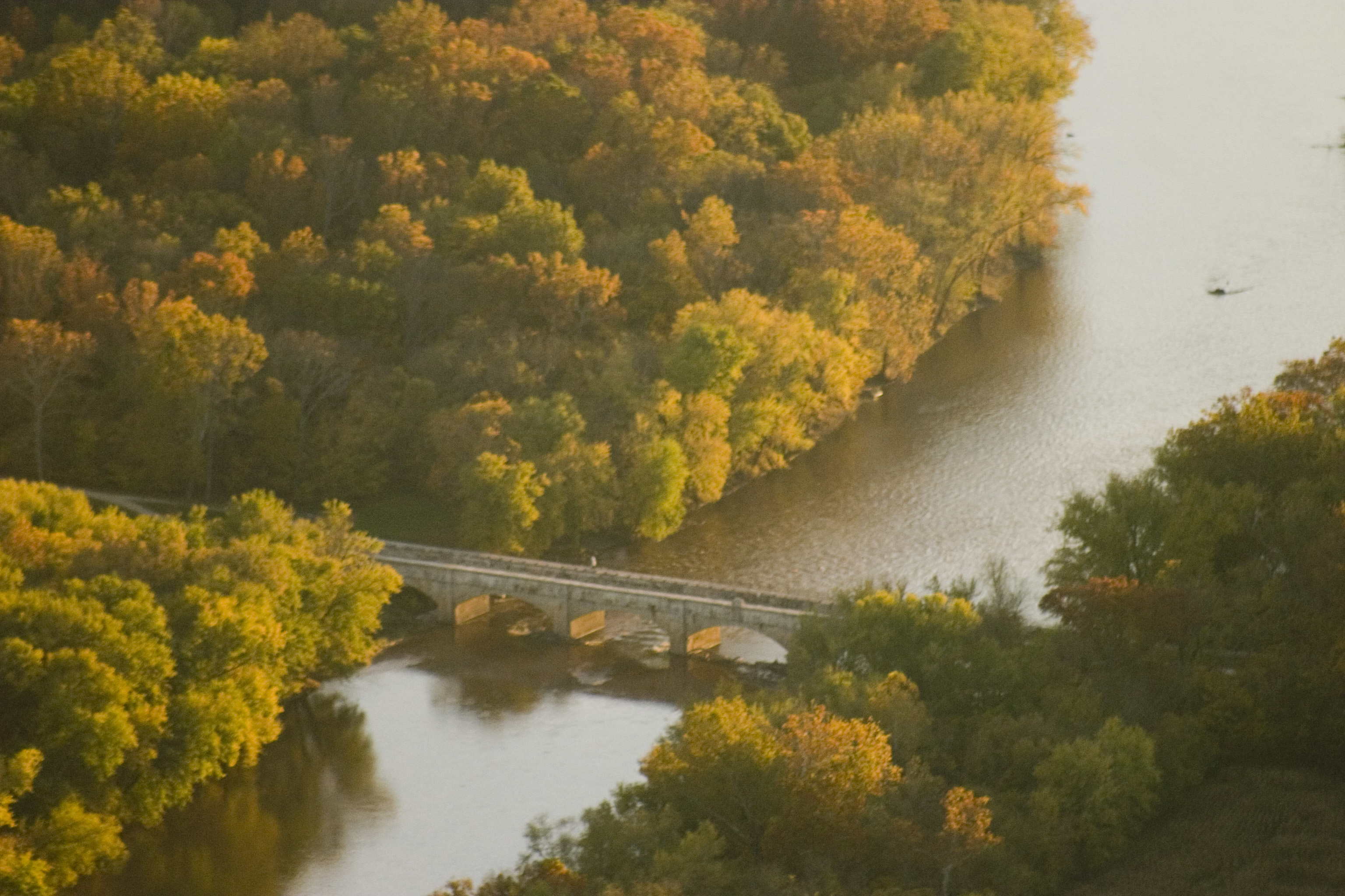 Aerial view of Monocacy Aqueduct. The aqueduct carries the Chesapeake and Ohio Canal across the mouth of the Monocacy River as it empties into the Potomac River.